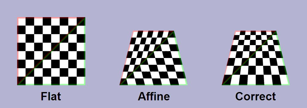 An illustration of perspective correct texture mapping.